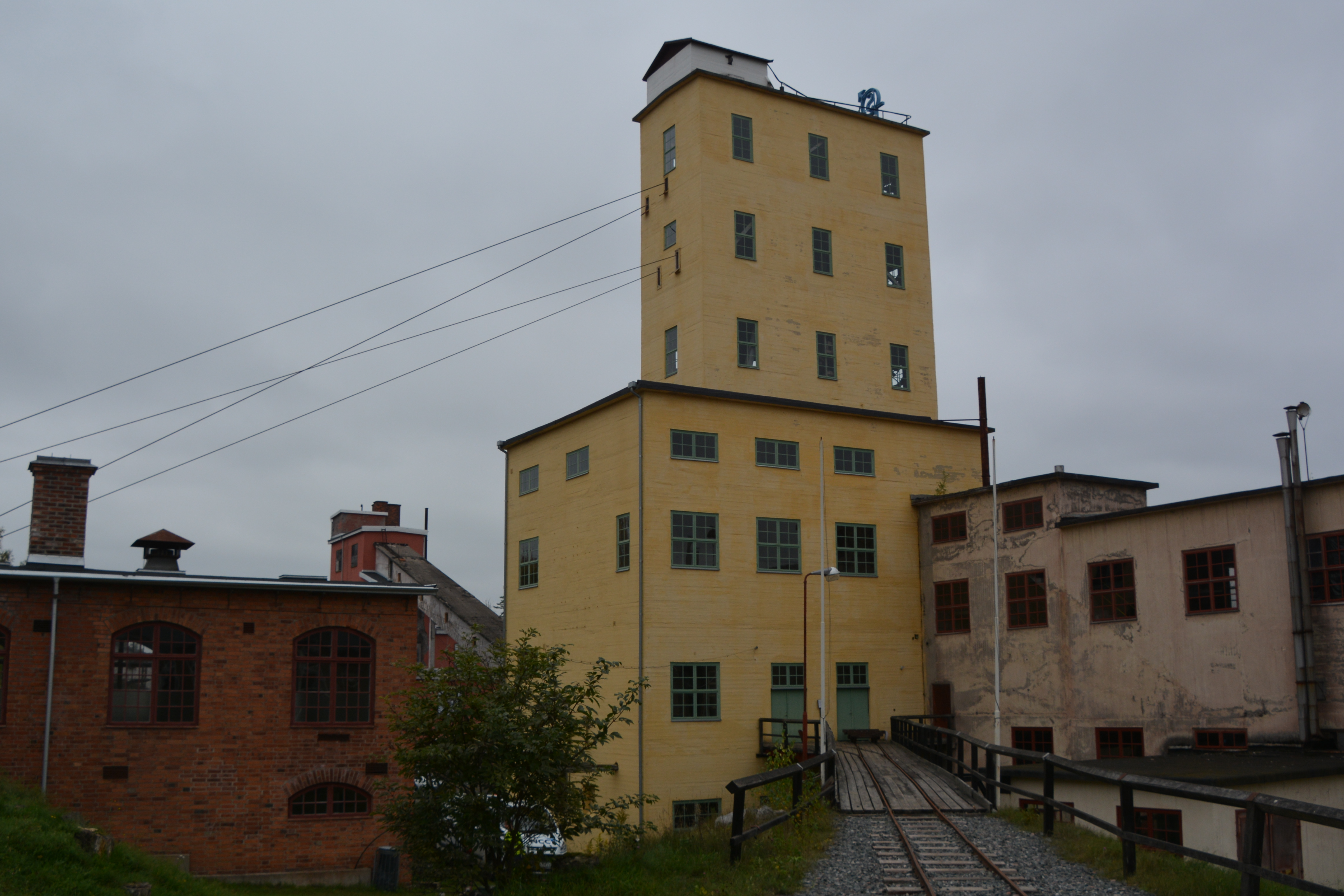 Gruvlaven Stripas gruva